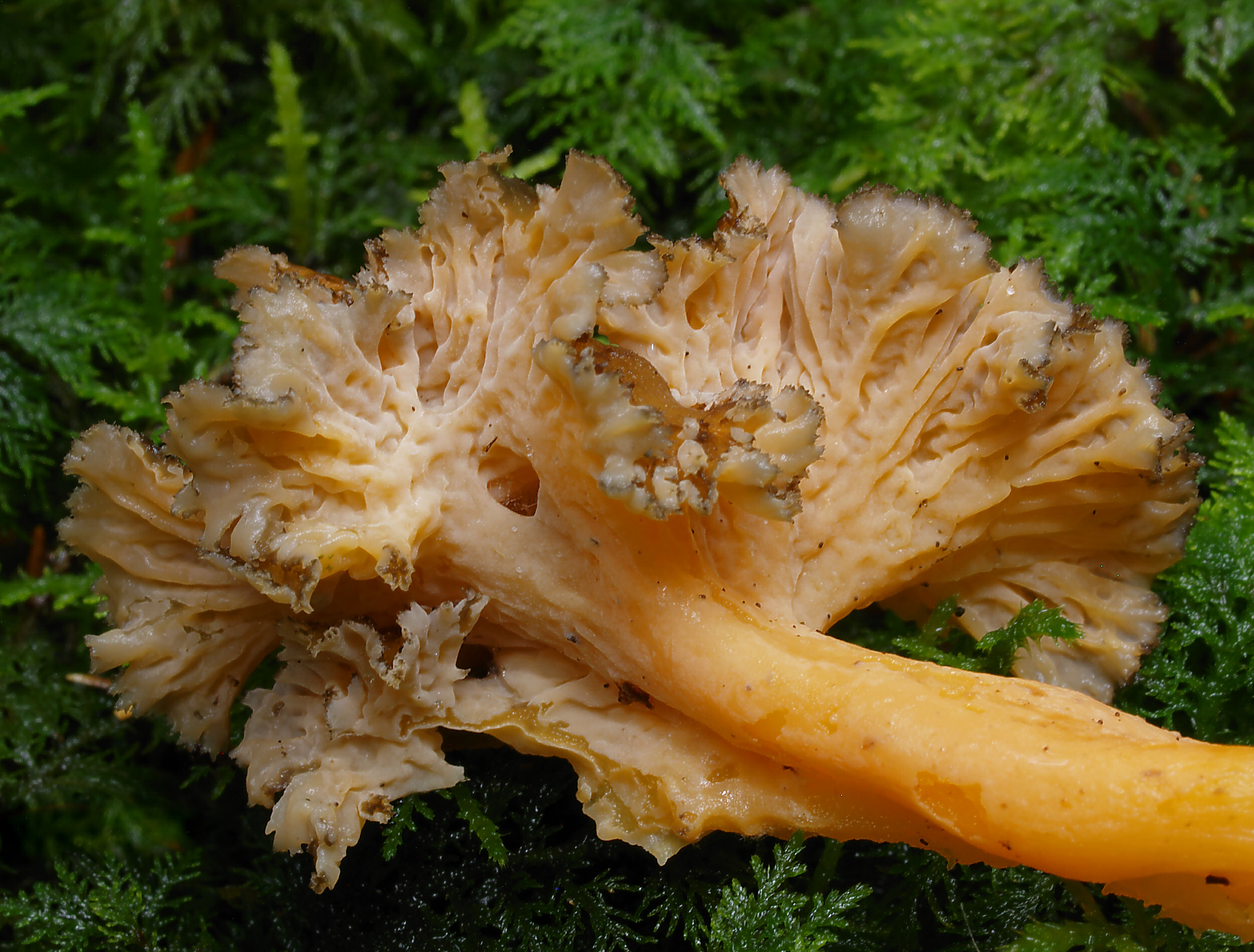 Hymenophor of an older Golden Chanterelle (Craterellus lutescens)